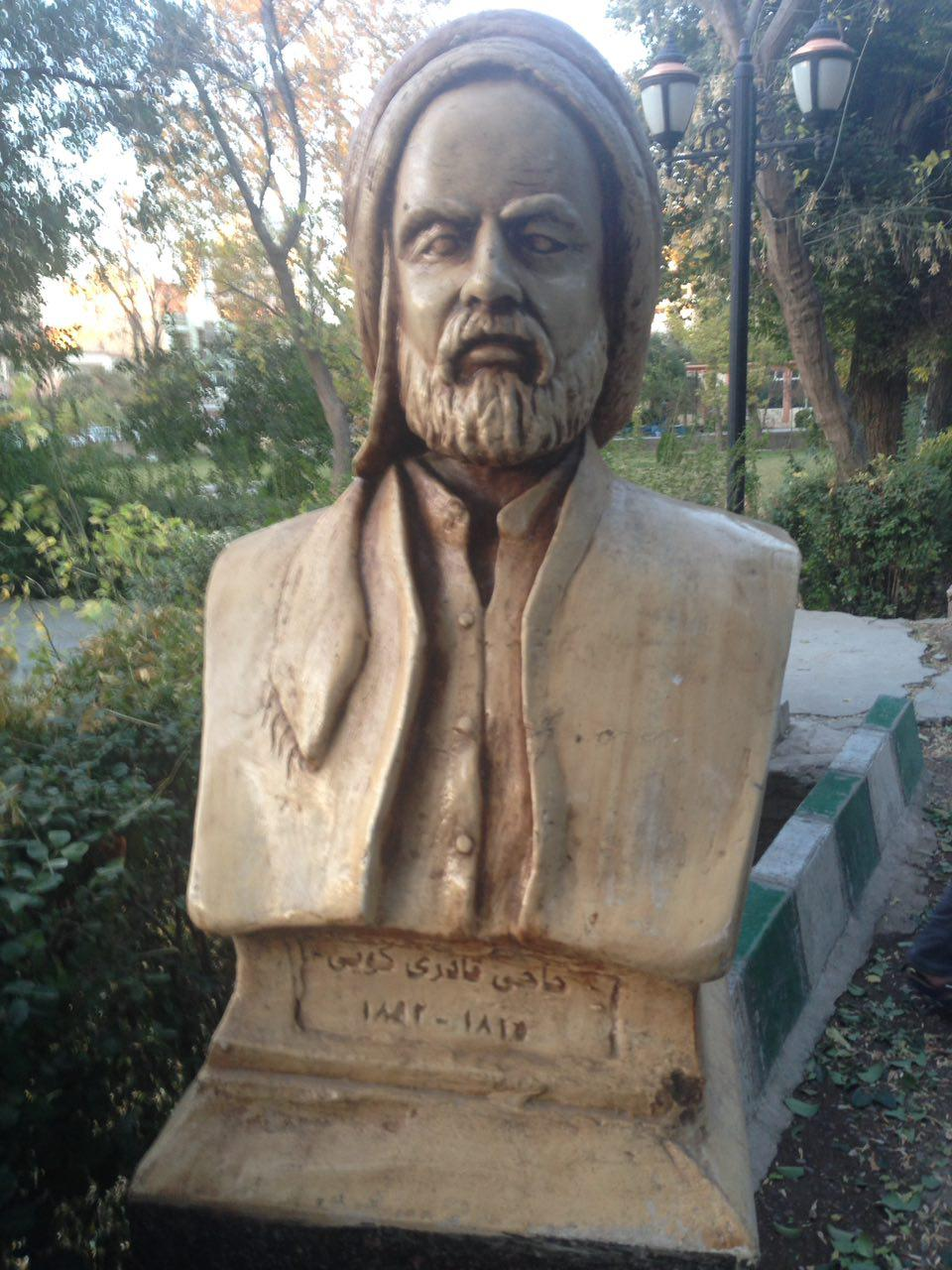 Kurdish Poet Statue Iraqi Kurdistan